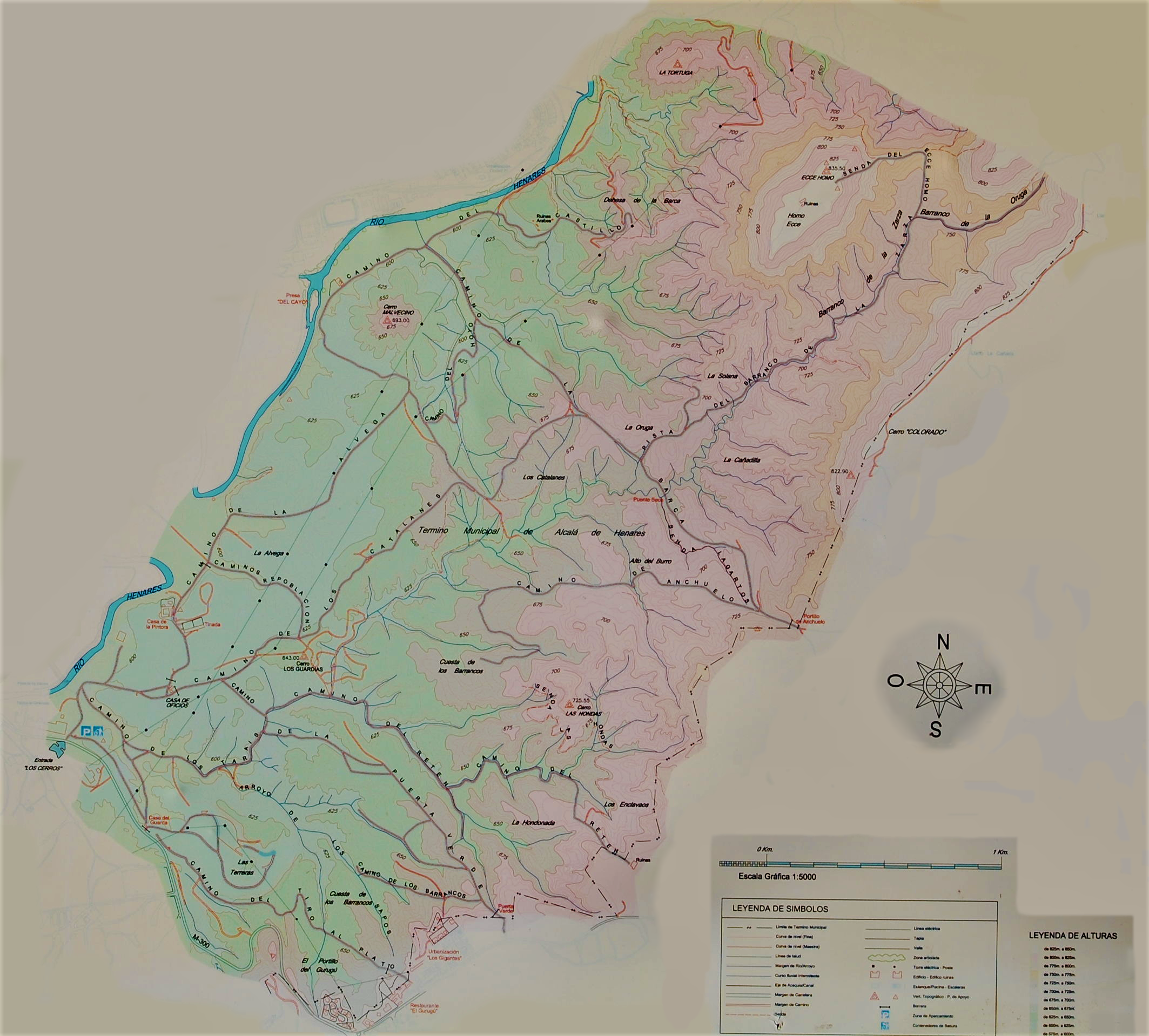 "Parque de los Cerros" is a protected natural landscape in the nearby of Alcalá de Henares (Community of Madrid - Spain). It shelter a good numbers of birds spieces and several environment: riverside forest, pine forest...